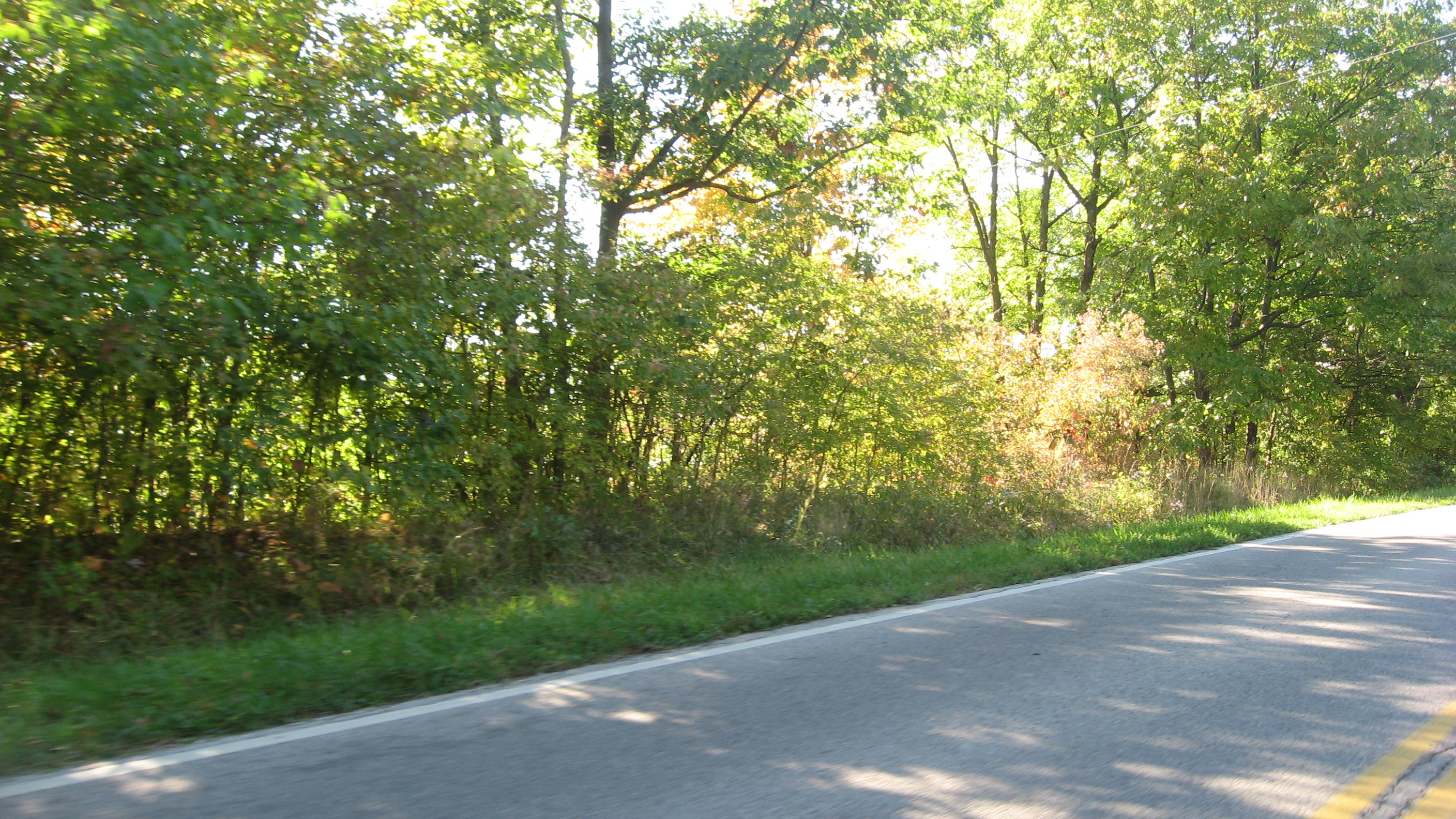 Woods on the southwestern side of Vermilion Road in the Lorain County portion of Vermilion, Ohio, United States. The woods are part of the Morris-Franks Site, an archaeological site that is listed on the National Register of Historic Places.